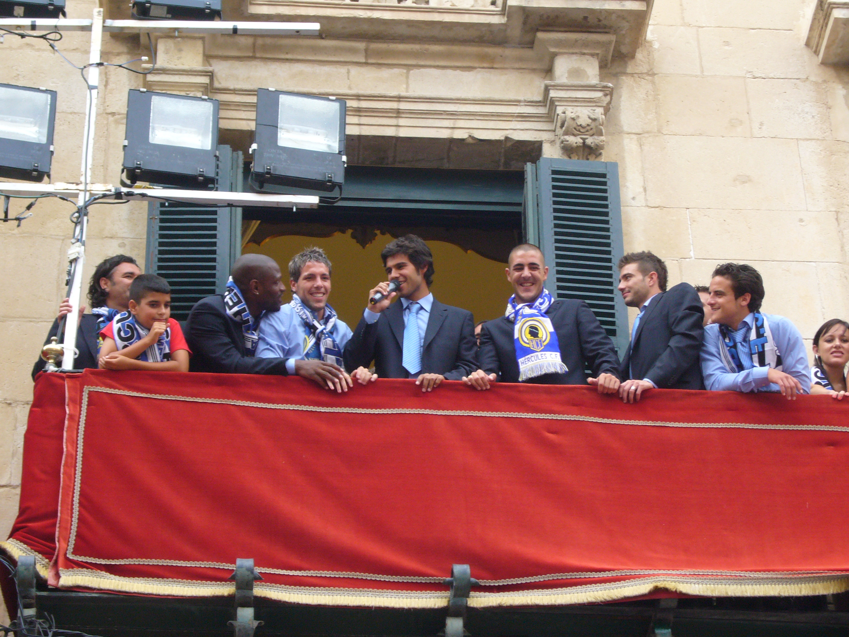 Jorge Alonso (with microphone in hand) on the balcony of the City of Alicante during the celebrations of the rise of Hércules C. F. to First division in 2009/10 season.